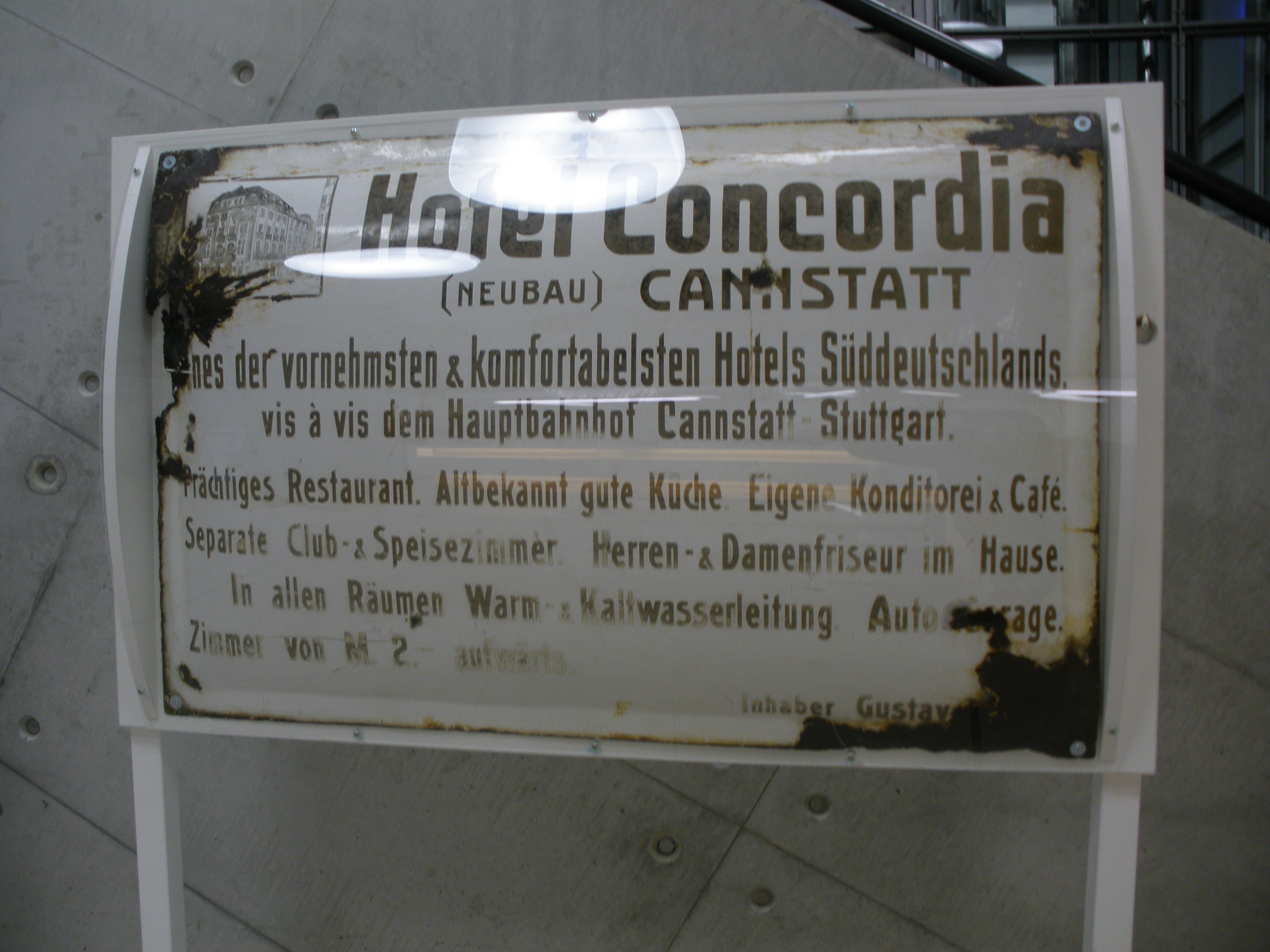 Sign of the Hotel Concordia in Cannstatt, place of the merger meeting of FV Stuttgart 1893 and Kronen-Klub Cannstatt